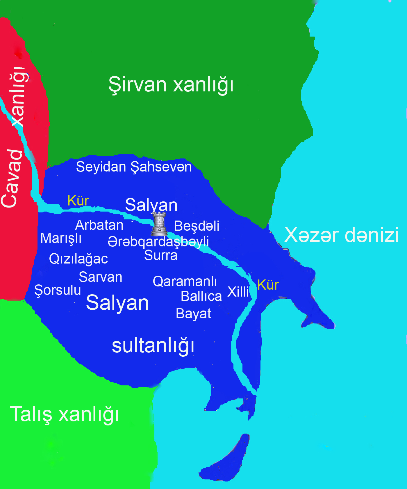 Salyan sultanate. Territories of Northern and Southern Khanates (and Sultanates) of Azerbaijan in 18th-19th centuries Based on the original sources: 1."Frontier nomads of Iran: a political and social history of the Shahsevan" Author: Richard Tapper Cambridge University Press, 1997 ISBN 0 521 58336 5 hardback 2."Russian Azerbaijan, 1905-1920: The shaping of national identity in a muslim community" Author: Tadeusz Swietochowski Cambridge University Press, 1985 ISBN 0 521 26310 7 hardback ISBN 0 521 52245 5 paperback 3."Russia and Iran, 1780-1828" Author: Muriel Atkin University of Minnesota Press, 1980 ISBN 0 8166 0924 1